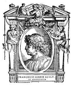 Illustratio from "Le Vite" by Giorgio Vasari, edition of 1568. For the artist portrayed see filename